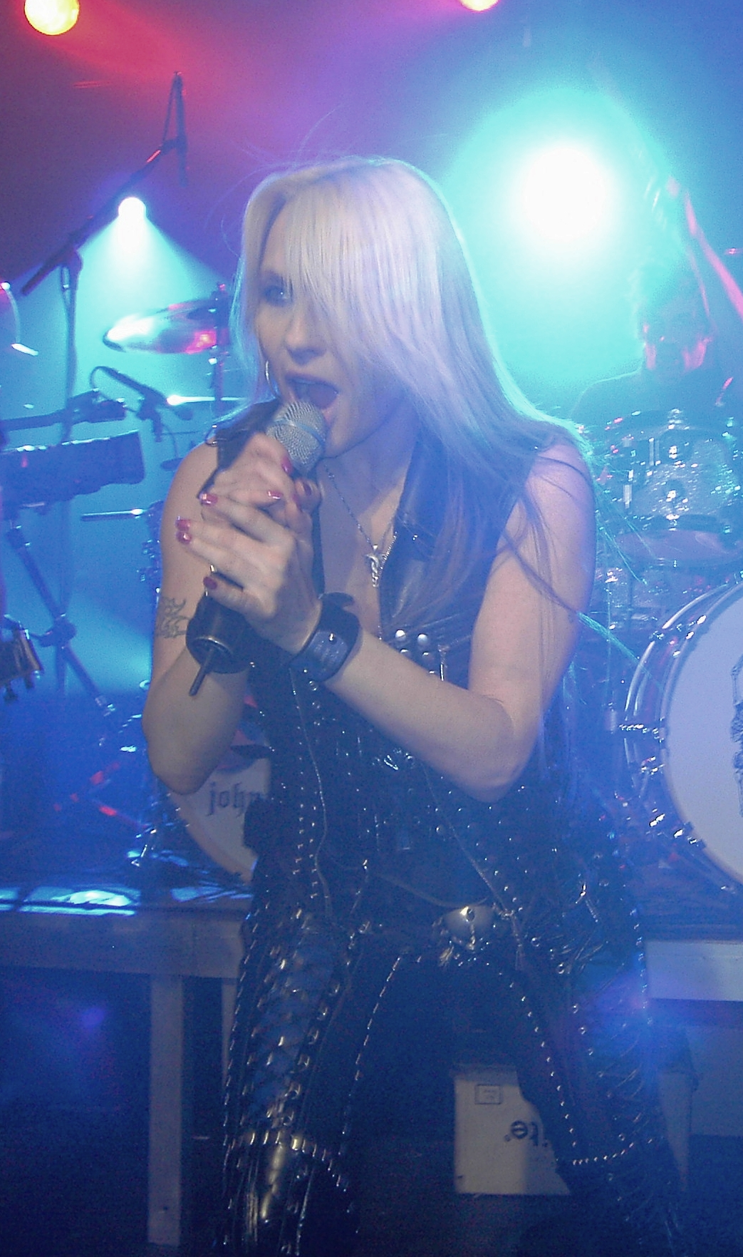 Doro Pesch live at Helmond, 28th April 2006